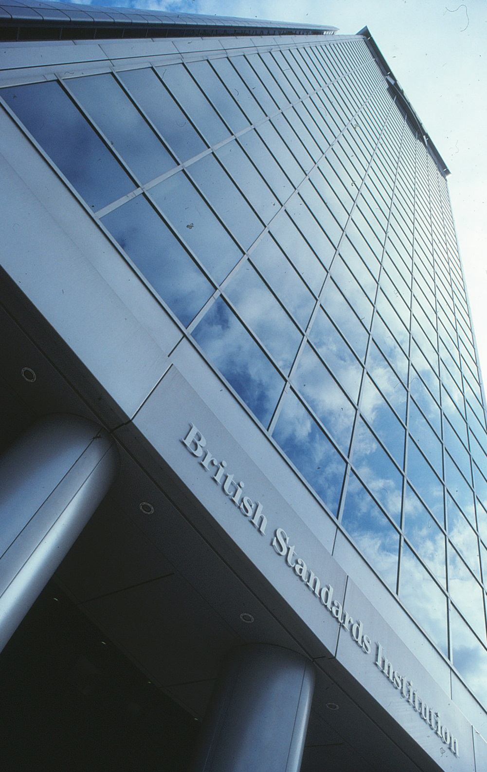 The British Standards Institution building at 389 Chiswick High Road, London, W4 4AJ, as it appeared in July 1997 from right in front of it.